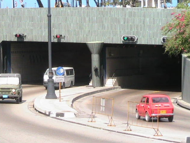 The Harbor Tunnel connects the city center with Habana del Este